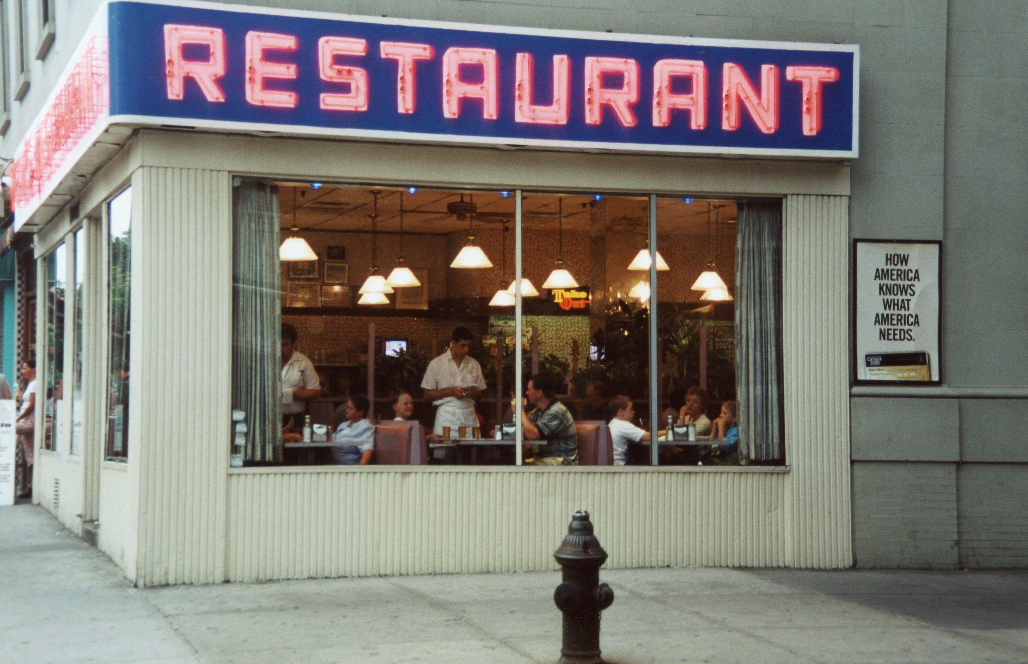 This is actually Tom's Restaurant, NYC. Famous as Monk's in Seinfeld, and as Tom's Diner, in the Suzanne Vega song of that name. It is located at the northeast corner of W. 112th Street and Broadway in New York, close to the campus of Columbia University, in the same building as the Goddard Institute of Space Studies.